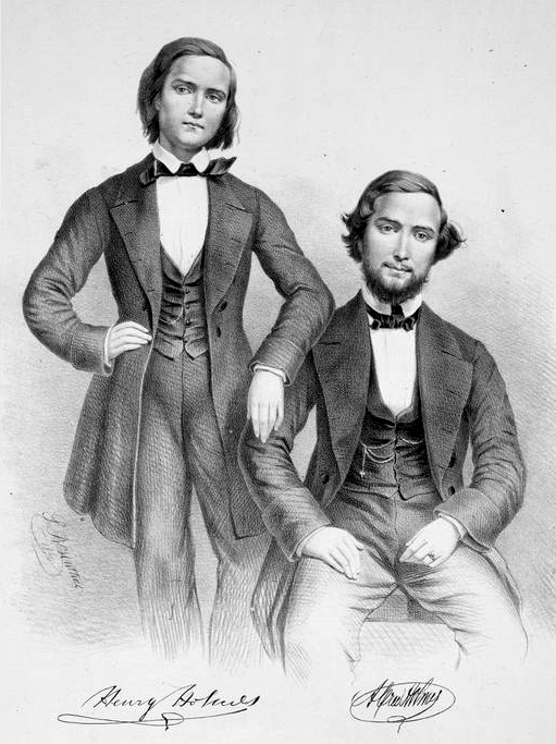 English composers and violinists Henry Holmes (1839-1905) and his brother Alfred Holmes (1837-1876).